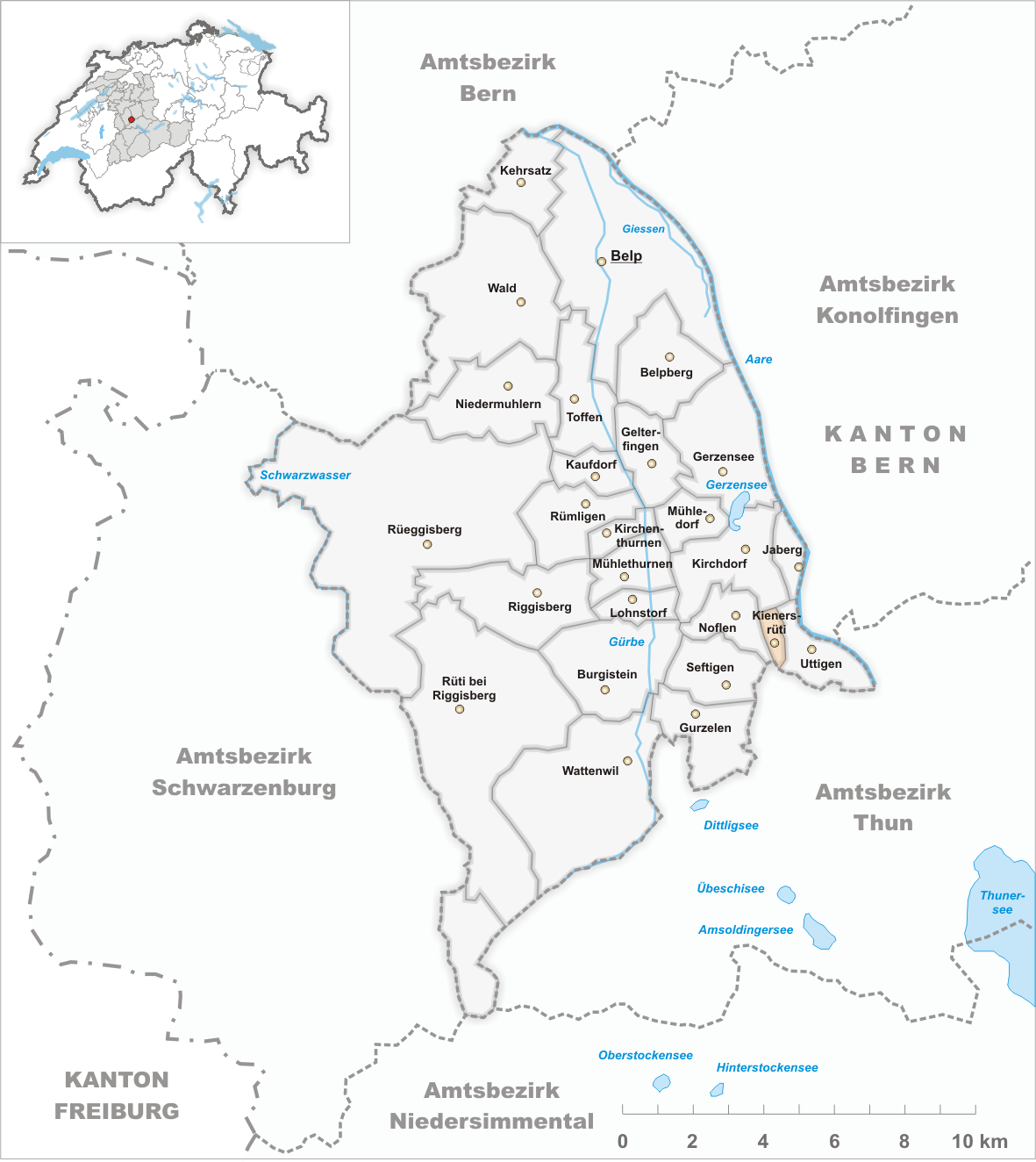 Municipality Kienersrüti